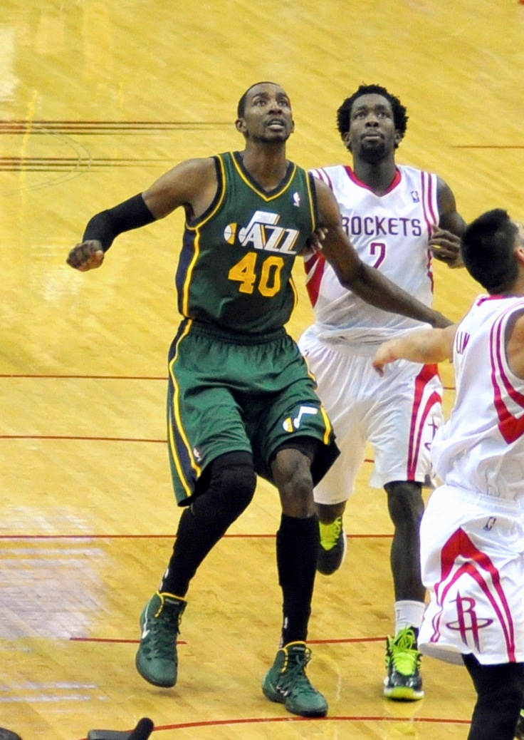 Jeremy Evans of the Utah Jazz (40) and Patrick Beverley of the Houston Rockets wait for a rebound during an NBA basketball game on March 17, 2014, at the Toyota Center in Houston, Texas.